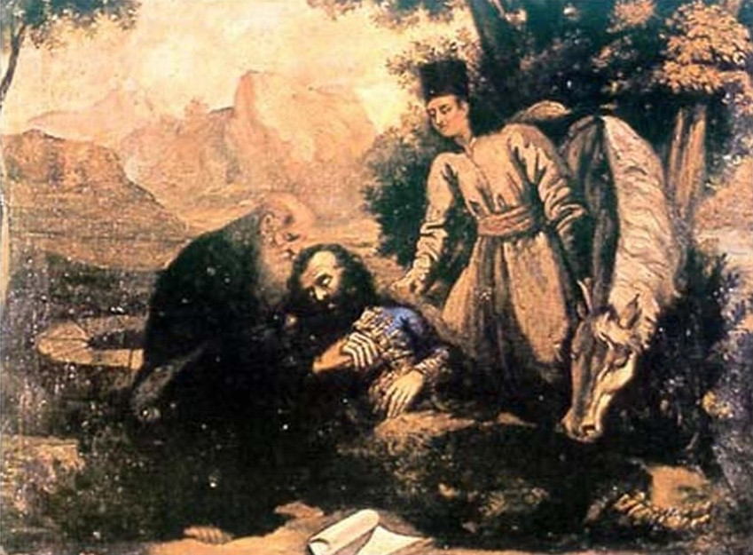 THE DEATH OF PRINCE MARKO (1848)By Novak Radonjic